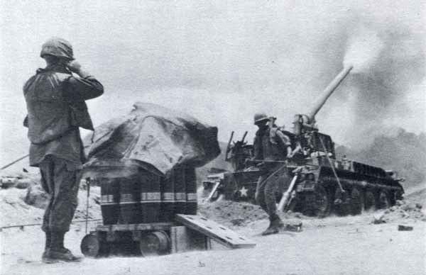 Description: M-107 firing, Battery C, 1st Battalion, 83d Field Artillery, at Fire Support Base Bastogne, Vietnam.